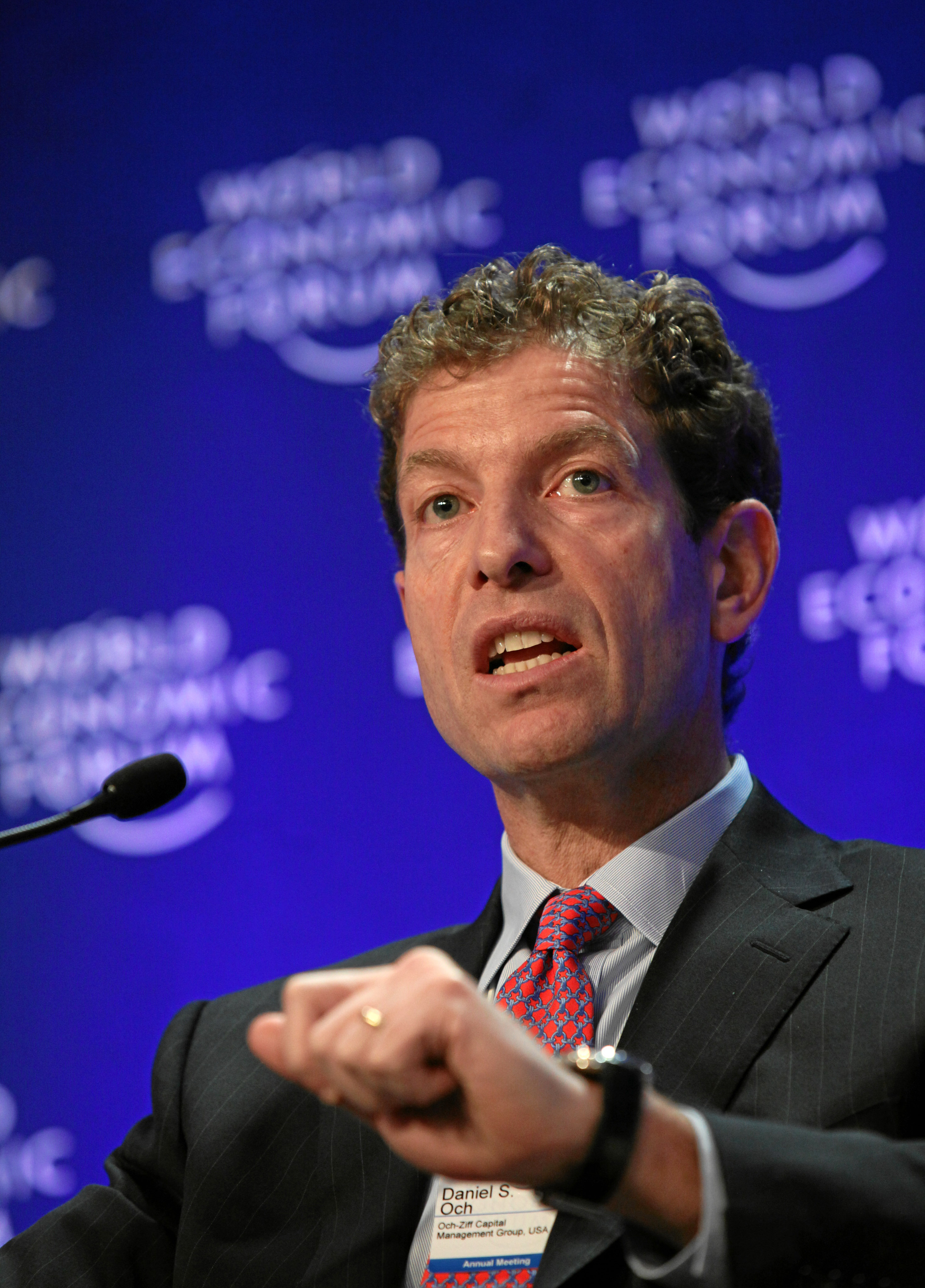 DAVOS-KLOSTERS/SWITZERLAND, 30JAN09 - Daniel S. Och, Chairman and Chief Executive Officer, Och-Ziff Capital Management Group, during the session 'Scenarios for the Future of the Global Financial System' at the Annual Meeting 2009 of the World Economic Forum in Davos, Switzerland, January 30, 2009. Copyright by World Economic Forum by Monikia Flueckiger